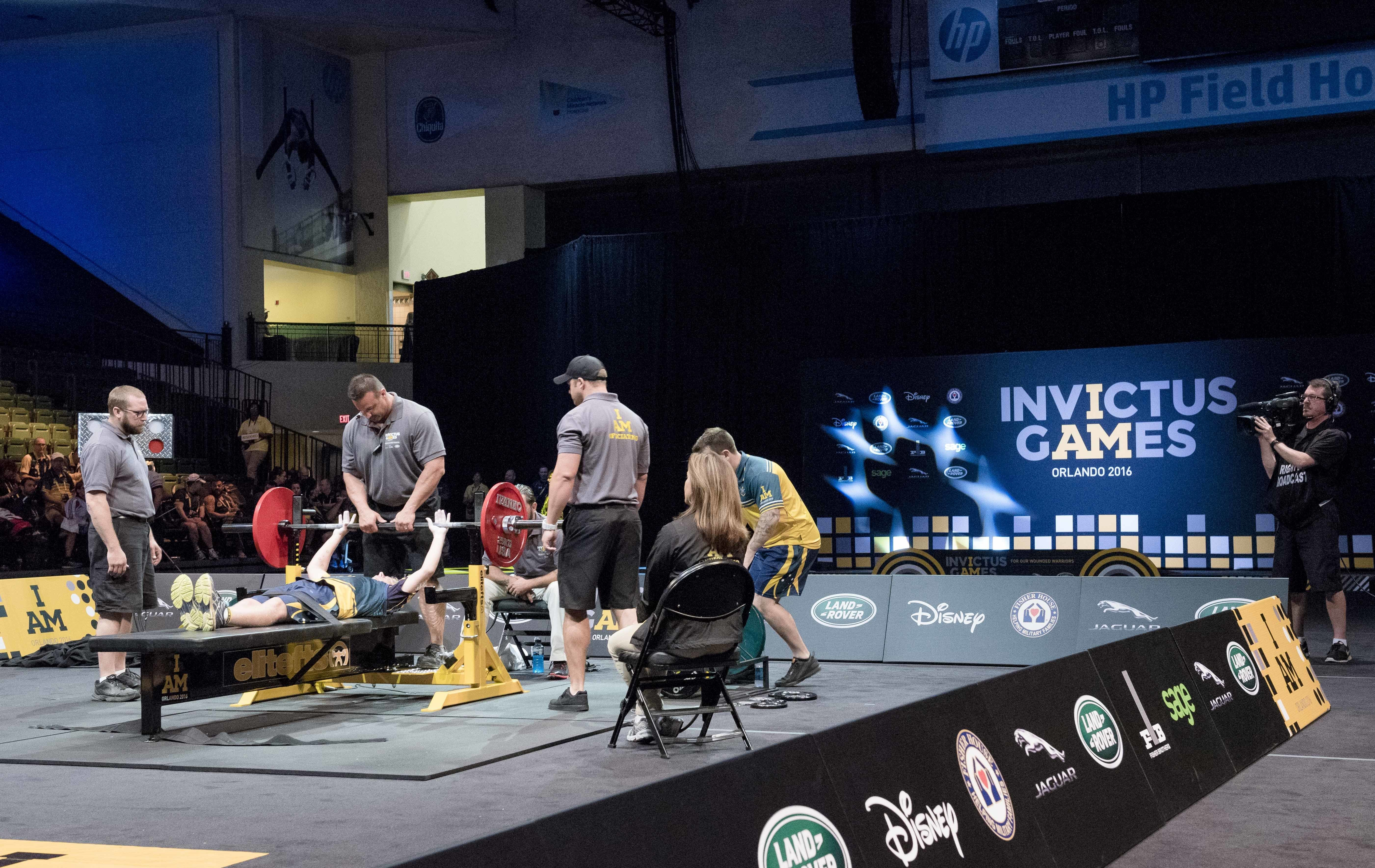 An athlete competing in men’s lightweight powerlifting prepares for his first of three lifts at the 2016 Invictus Games, in Orlando, Fl., May 9, 2016. The games are an international sporting event for wounded, ill, and injured service members – both active duty and veteran. During the week of competition, over 500 military competitors from 15 different nations will take part in 10 sporting events. DoD photo by SSG Sean K. Harp Unit: Office of the Chairman of the Joint Chiefs of Staff